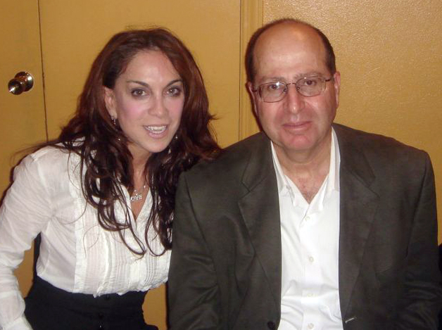 Moshe Yaalon, Former IDF chief of staff, and blogger pamela geller.